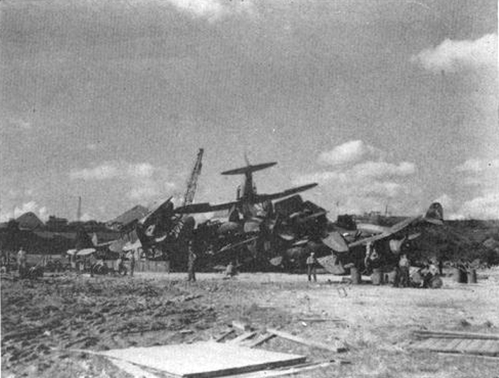 Wrecked Japanese planes at Sasebo, Japan, in September 1945. The planes were being scrapped.